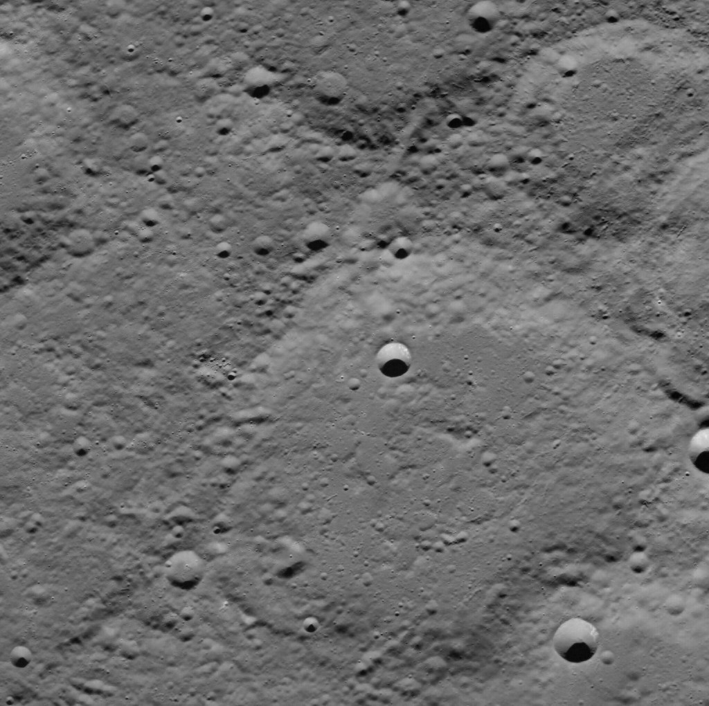 Al-Akhtal crater (lower right) on Mercury. MESSENGER Wide Angle Camera image. Approximate north is in upper right. Emission Angle: 14.8 Incidence Angle: 69.5 Latitude: 59.5 Longitude: 259.0 Phase Angle: 56.9